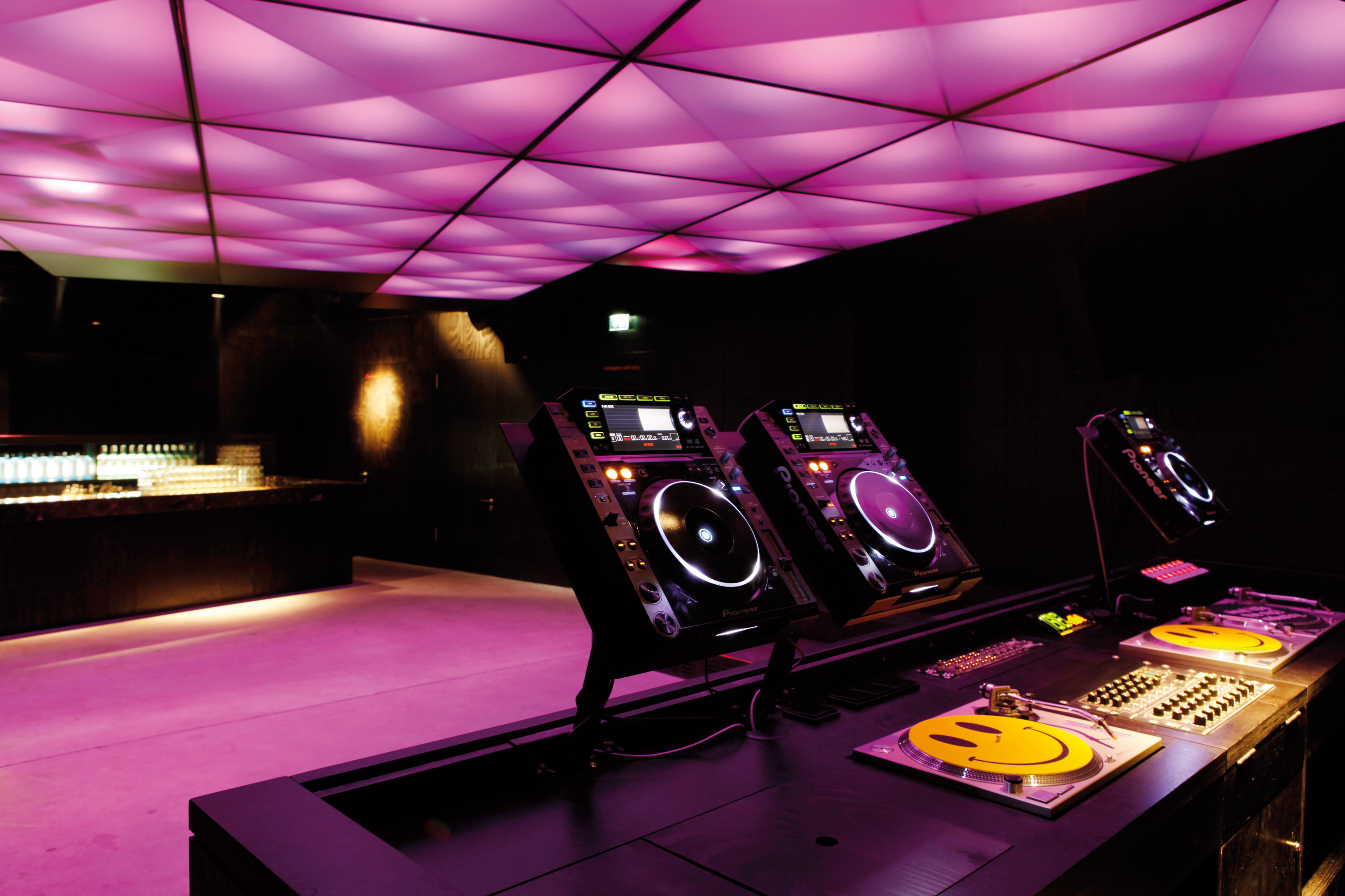 Techno club Bob Beaman in Munich.